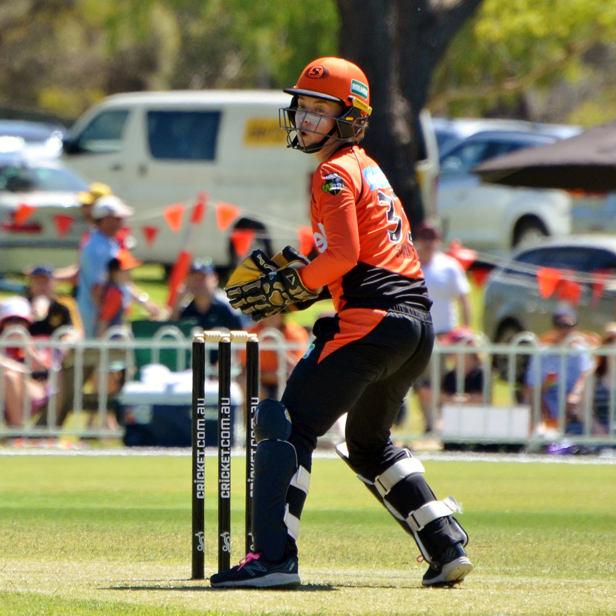 Perth Scorchers wicket-keeper Emily Smith keeping against the Sydney Sixers, in a WBBL match at Lilac Hill Park in Perth